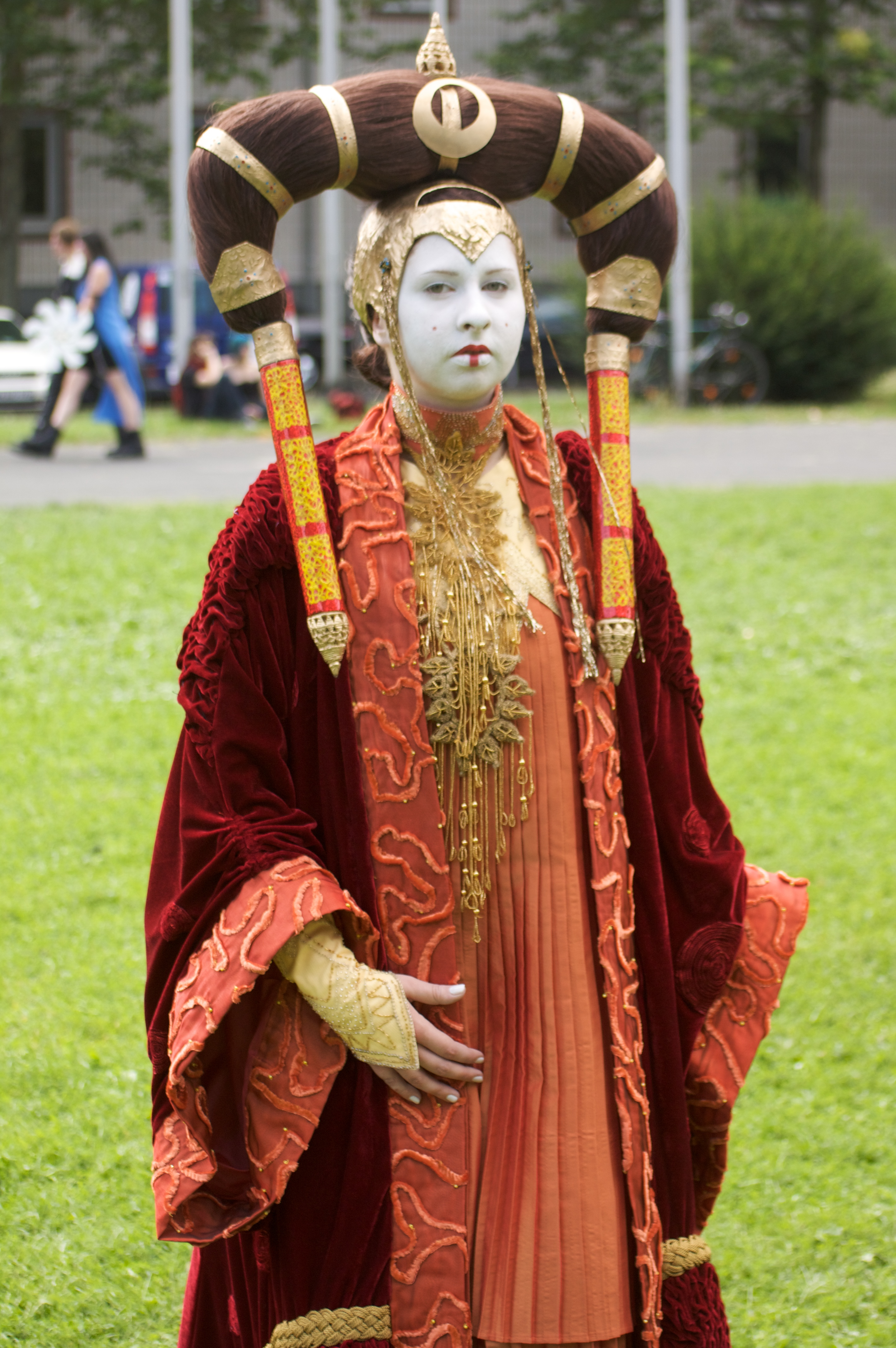 Cosplay: Princess Amidala (Star Wars)